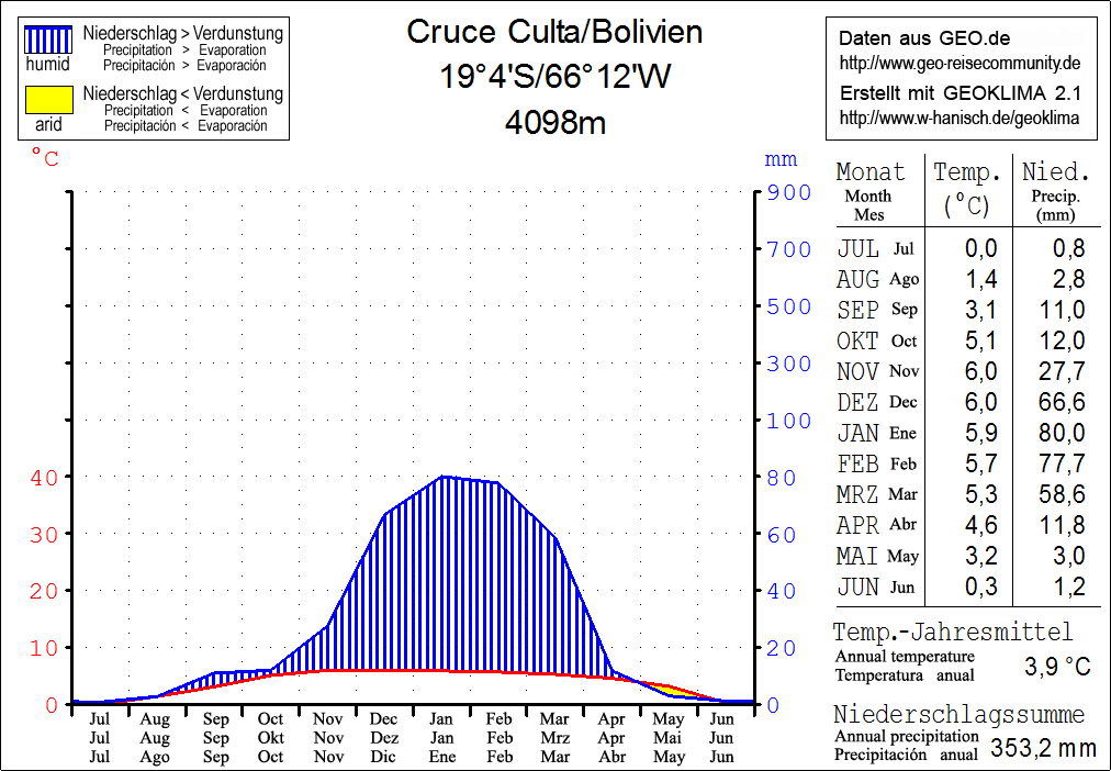 Climate chart in the Walter and Lieth format, metric, °Celsius und millimeters, made with Geoklima 2.1